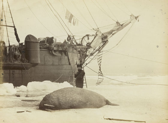 Walrus killed in Franklin Pierce Bay - 1875